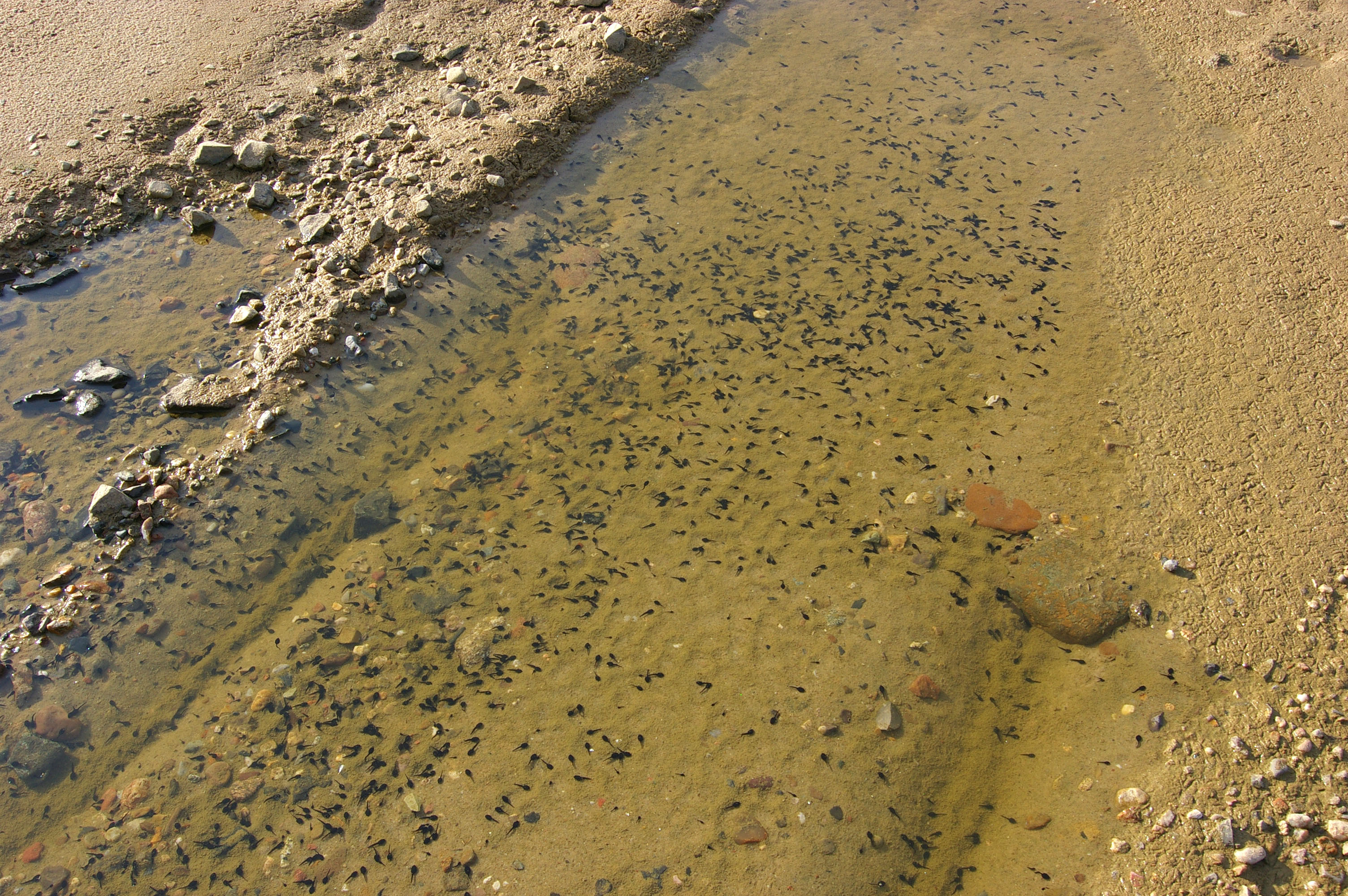 Small pool (= puddle) in a gravel pit – habitat of tadpoles from the Natterjack Toad, Epidalea (Bufo) calamita.